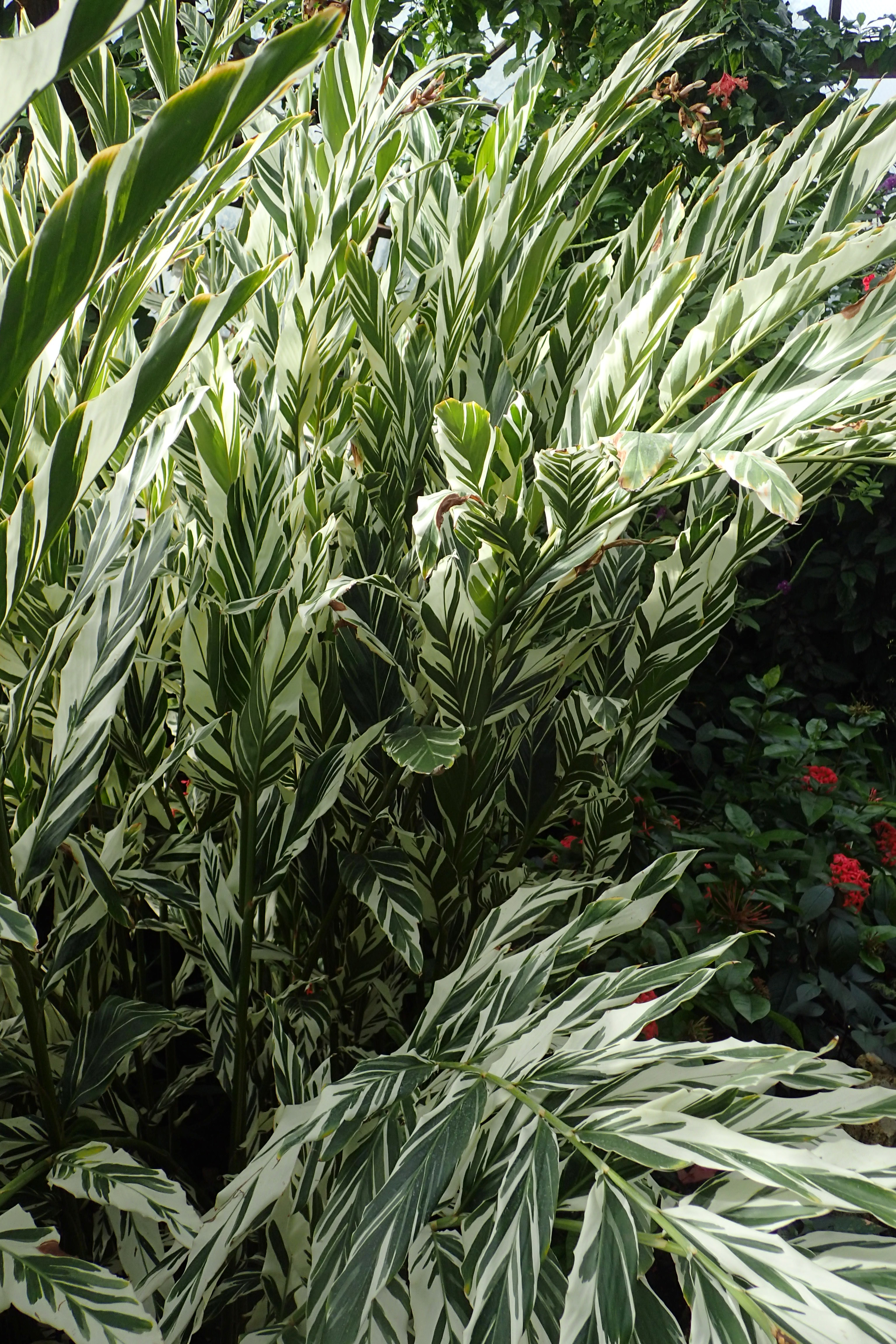 Alpinia vittata in Lincoln Park Conservatory, Chicago